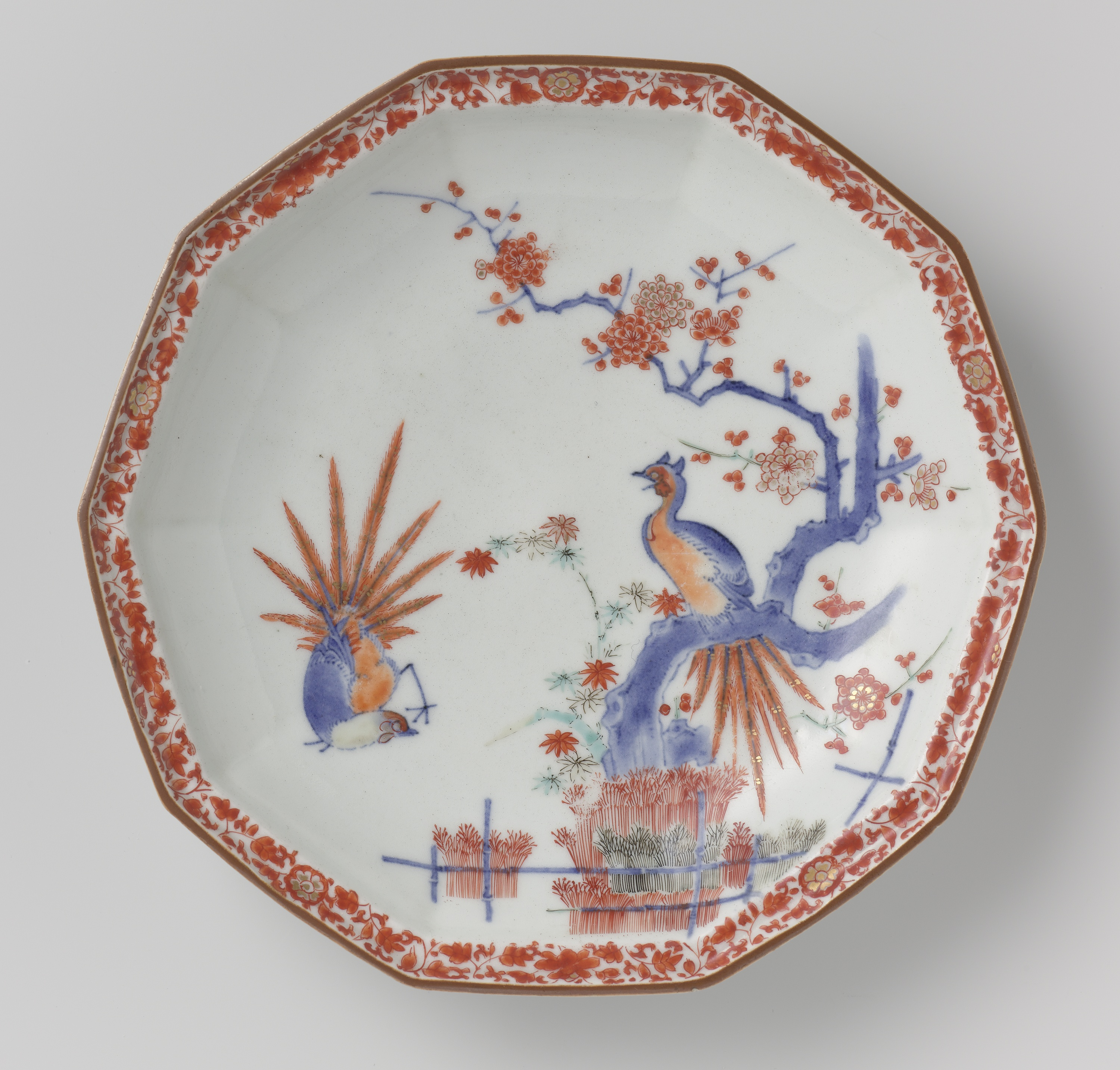 Dish, kakiemon, decagonal border, decorated with a bird of paradise sitting on a flowering prunus branch.